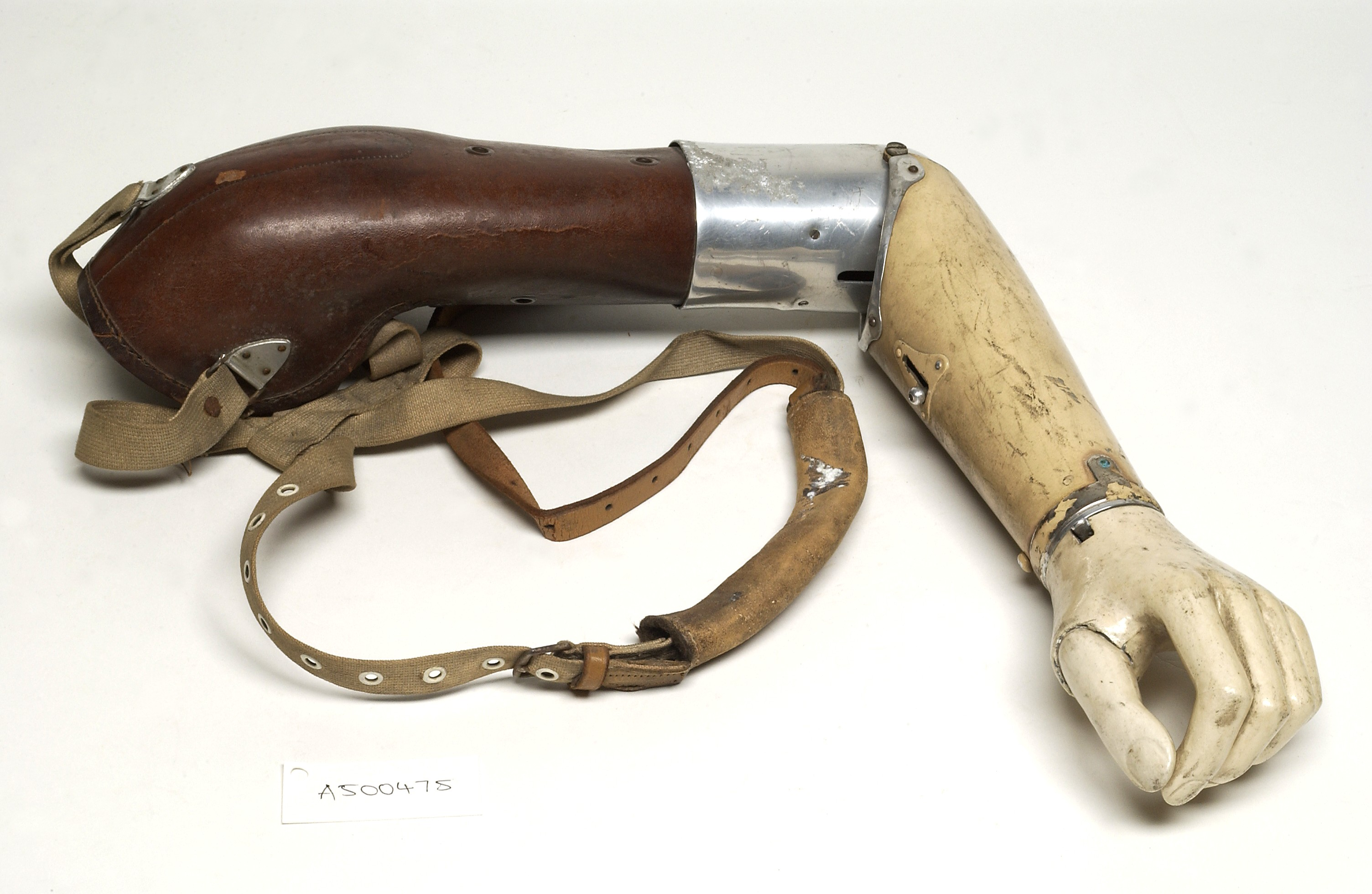 Artificial left arm with shoulder straps. Made with leather and aluminium by W. R. Grossmith. Wellcome Images Keywords: Artificial Limbs; Prosthetics